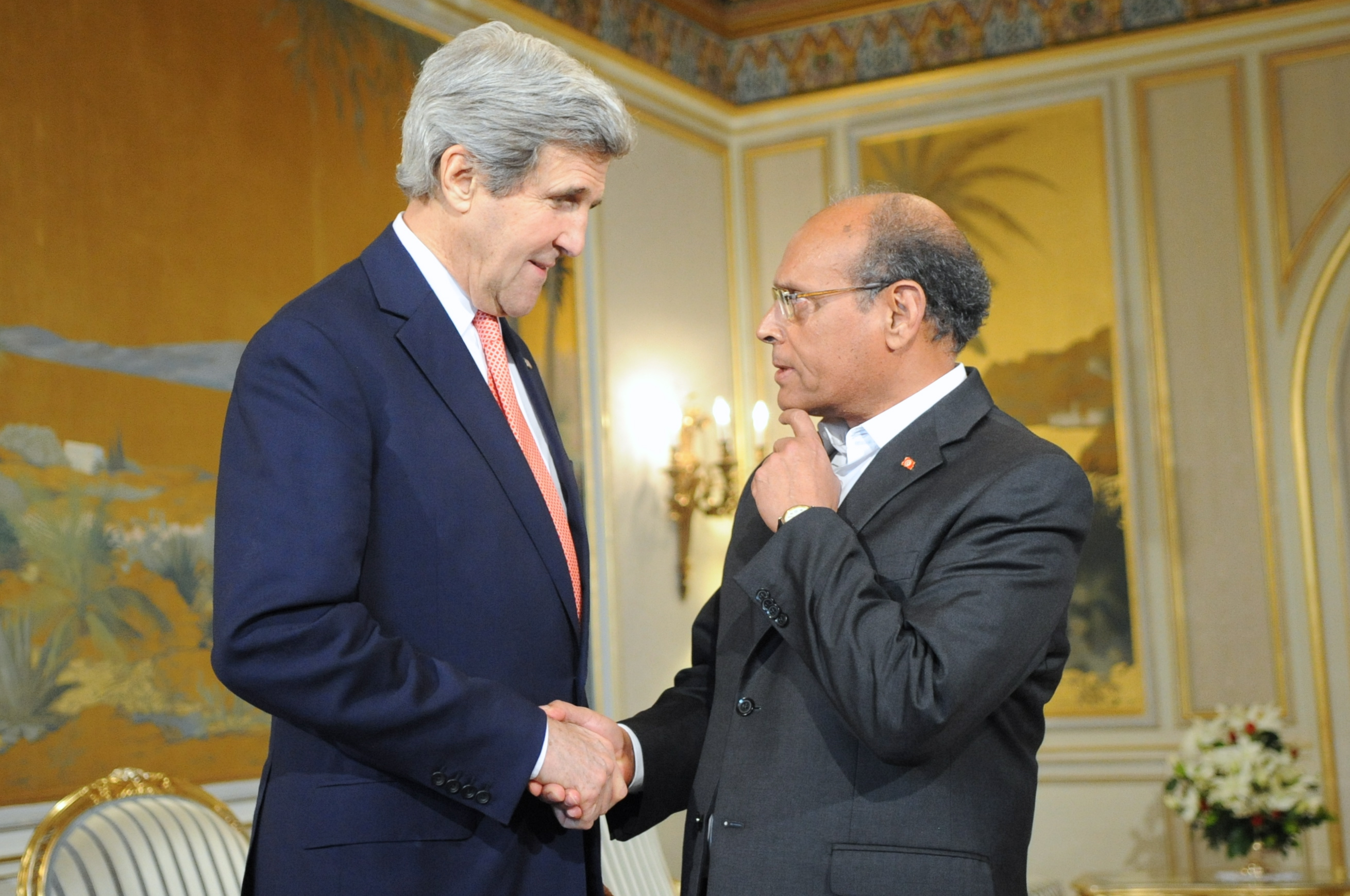 Mazouki and Kerry